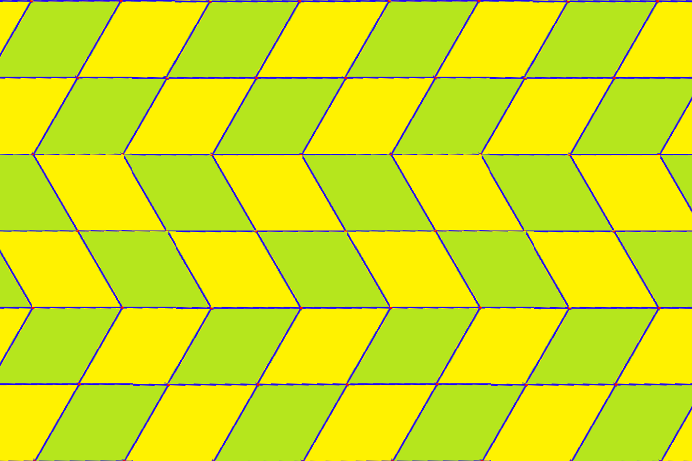 Rhombic tiling, mixing two orientations